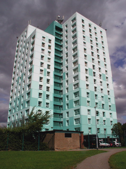 Padstow House, Roebank. Looking northeast from Cookbury Close. Structurally a fairly bog-standard block of flats, its appearance (and that of one or two others in Hull) has been much improved by some rather stylish cladding. See also 538129.